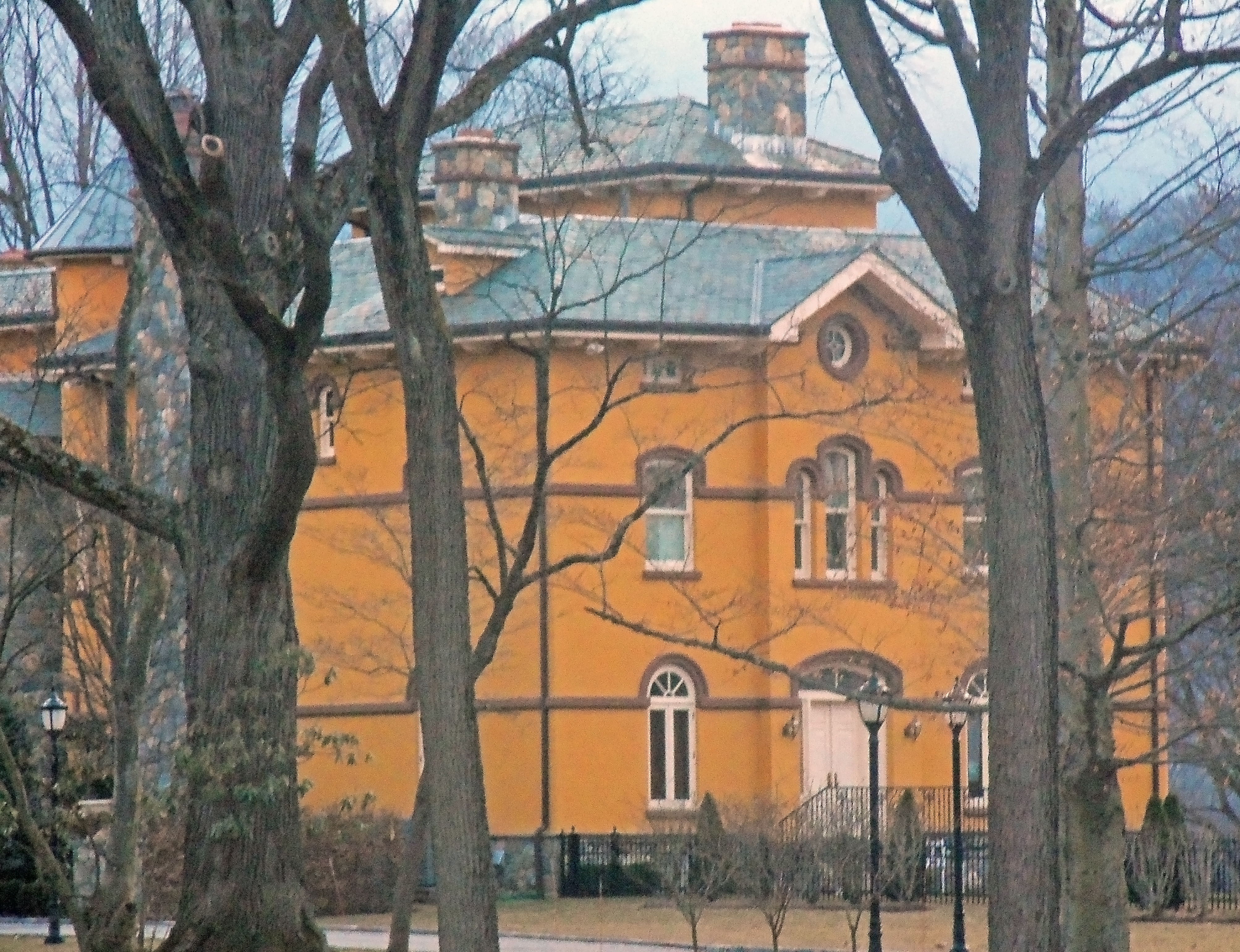 Front facade of Richard Upjohn's Rock Lawn in Garrison, NY, USA